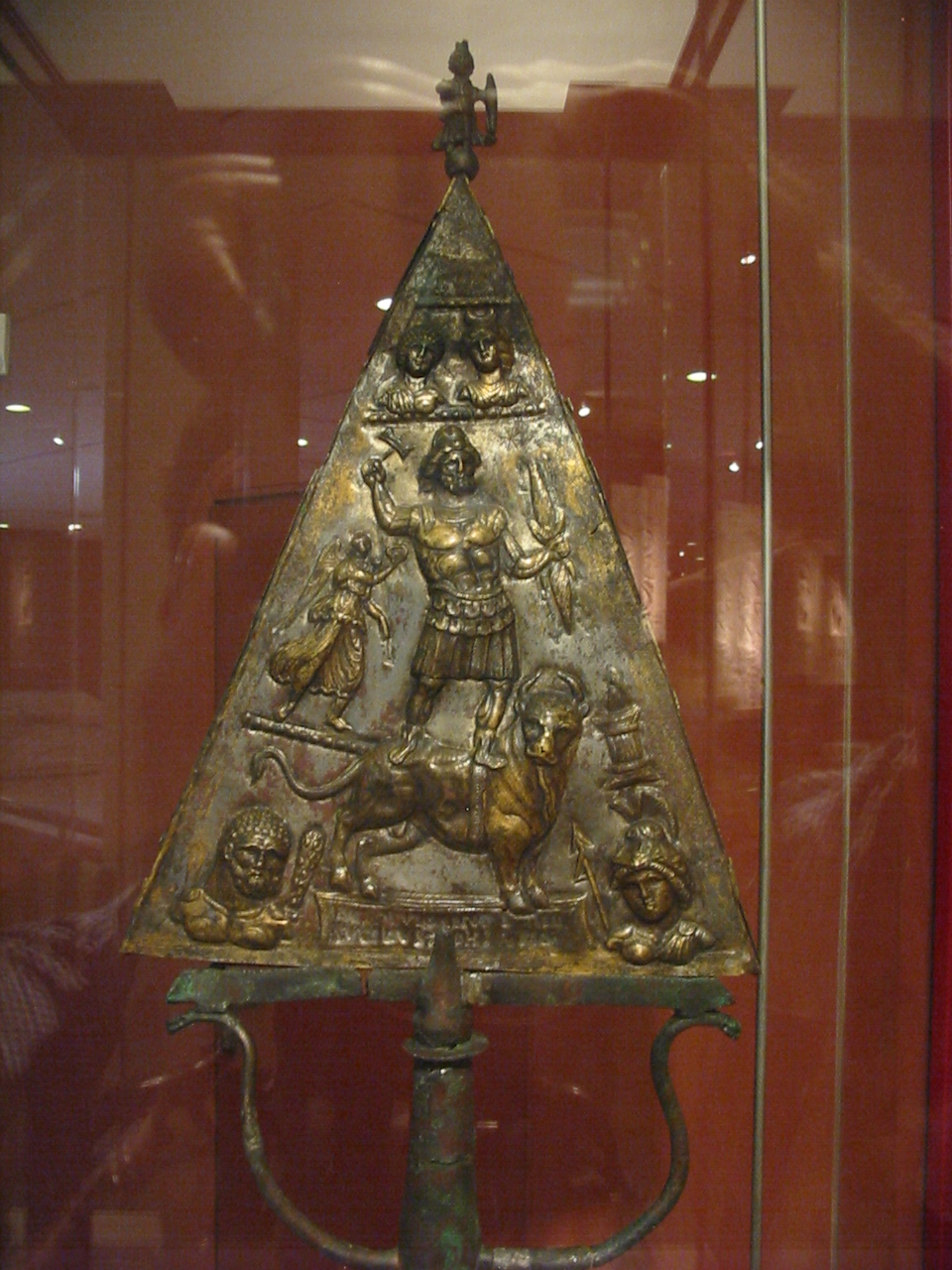 Bronze votive plaque dedicated to Jupite Dolichenus from Kömlöd, Hungary. Now in the Hungarian National Museum, Budapest.